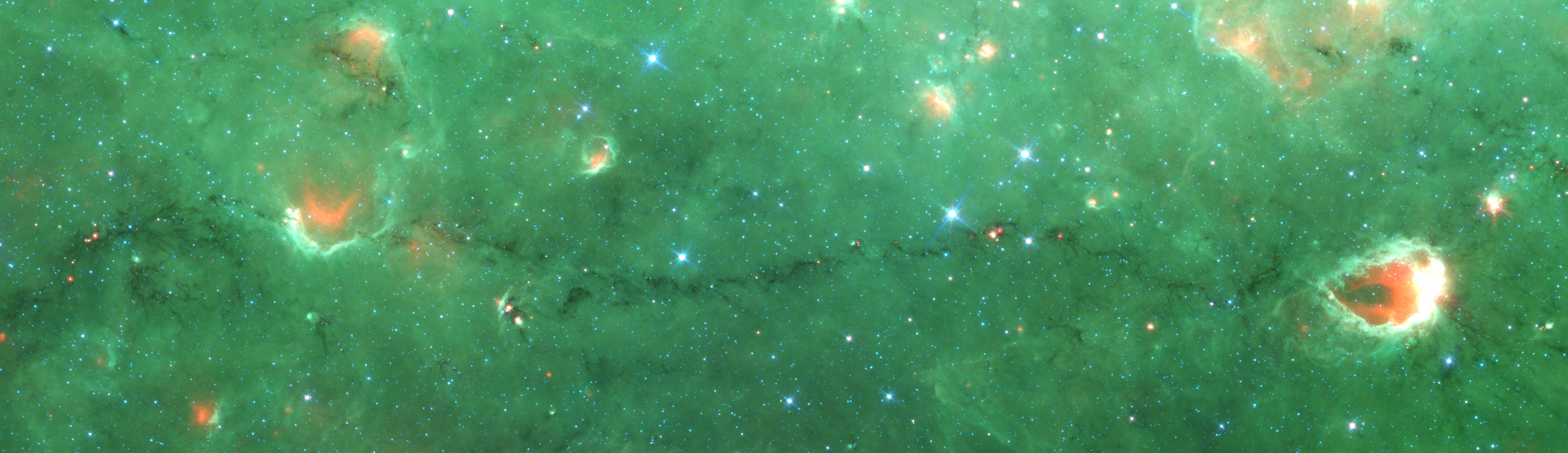 The "Nessie" infrared-dark cloud observed by the Spitzer Space Telescope.